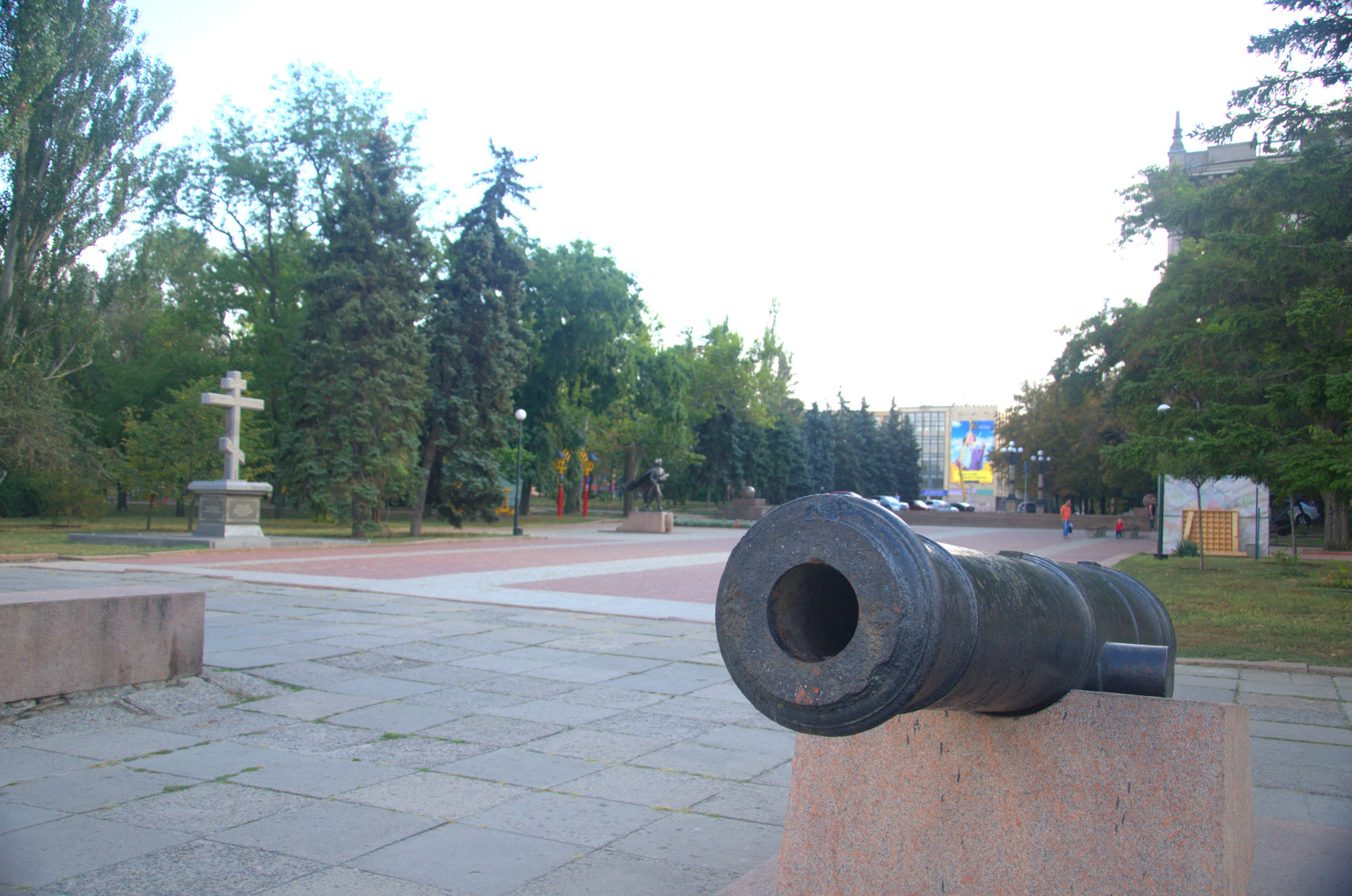 Оld gun, Flotskiy bulvar, Mykolayiv, Ukraine